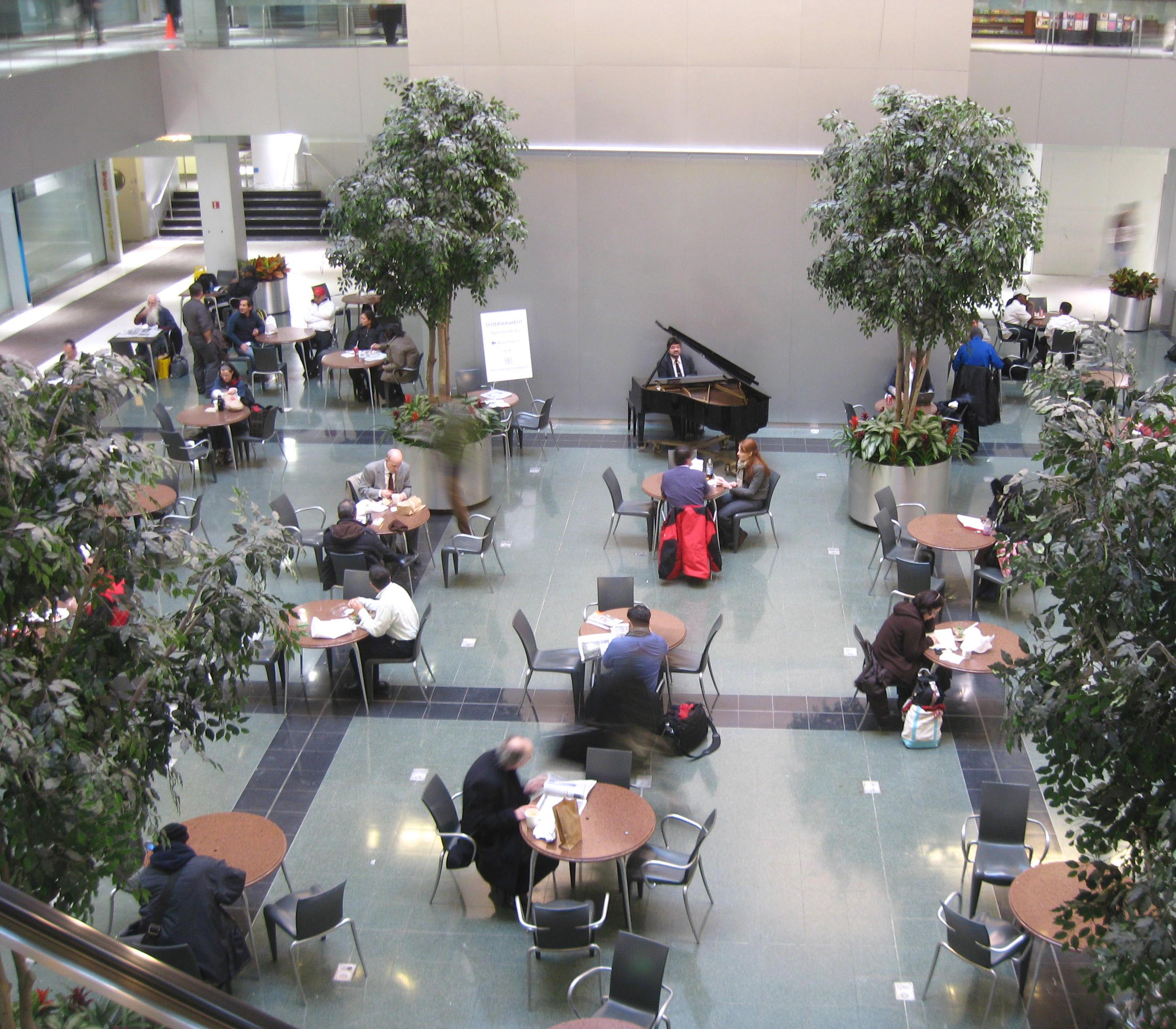 Looking west and down into public lobby of Citigroup Center with public seating and piano player